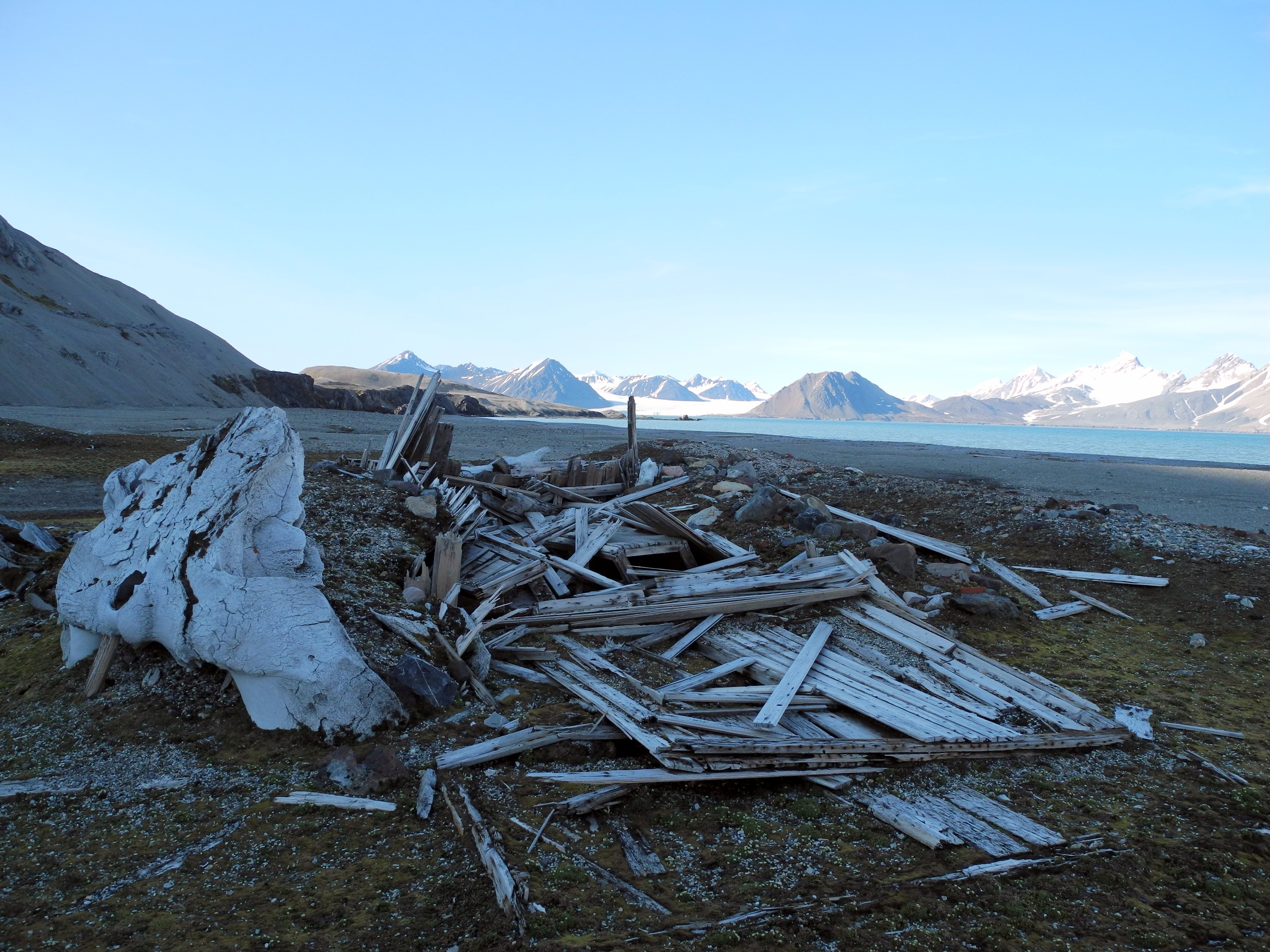 Remains of a cabin built from whale bones on a blubber oven at Gåshamna.